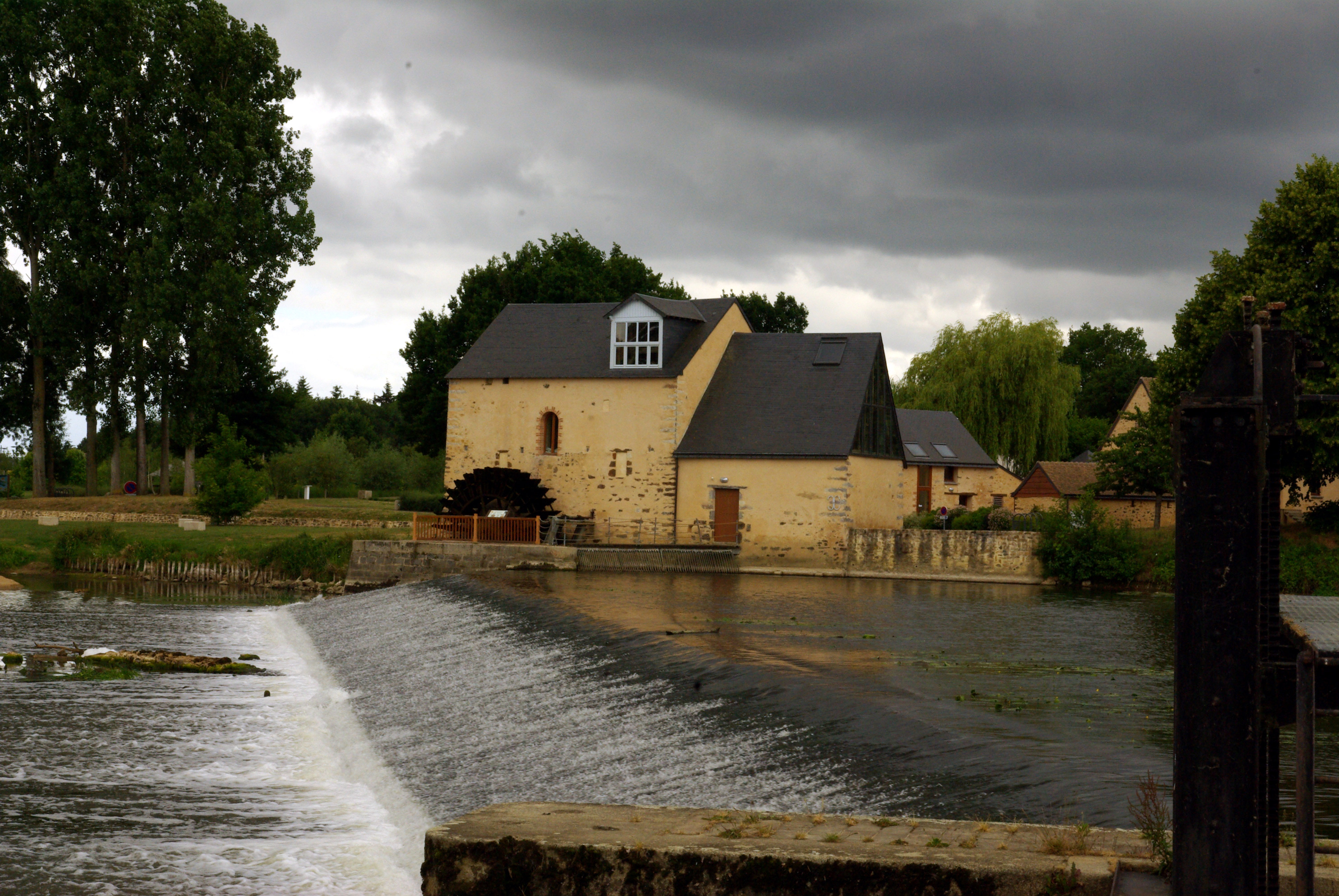 Watermill in Fillé-sur-Sarthe